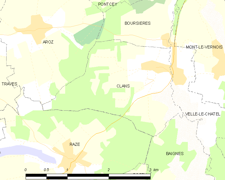 Map of French municipality